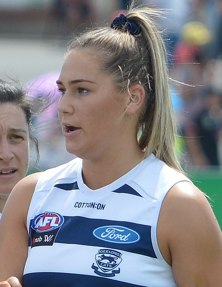 Rebecca Webster with Geelong in the round 4 2020 AFLW match against Richmond at Queen Elizabeth Oval in Bendigo.